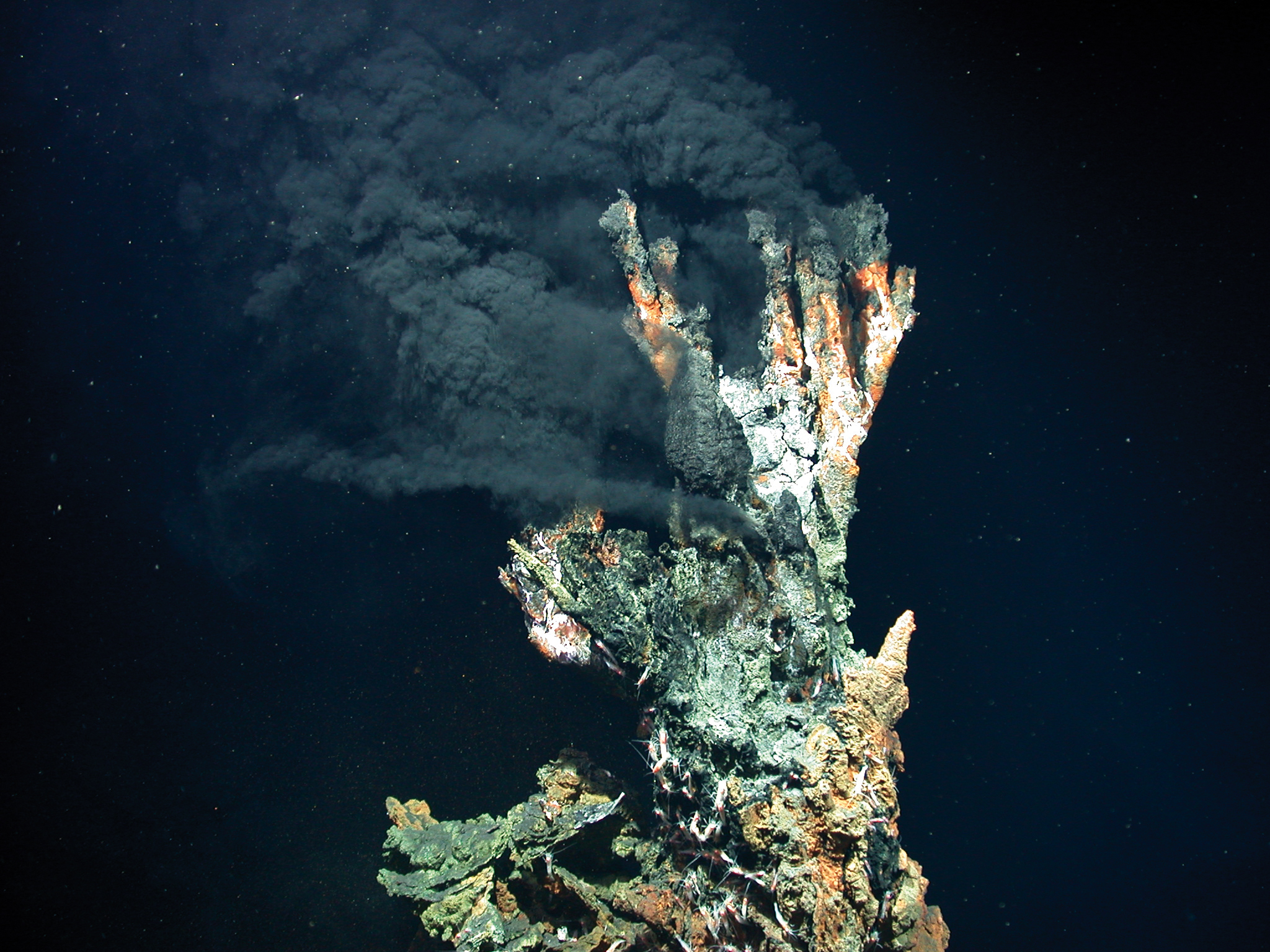 The “Can­de­labra” black smoker at a wa­ter depth of 3,300 meters in the Log­atchev Hy­dro­thermal Field on the Mid-At­lantic Ridge